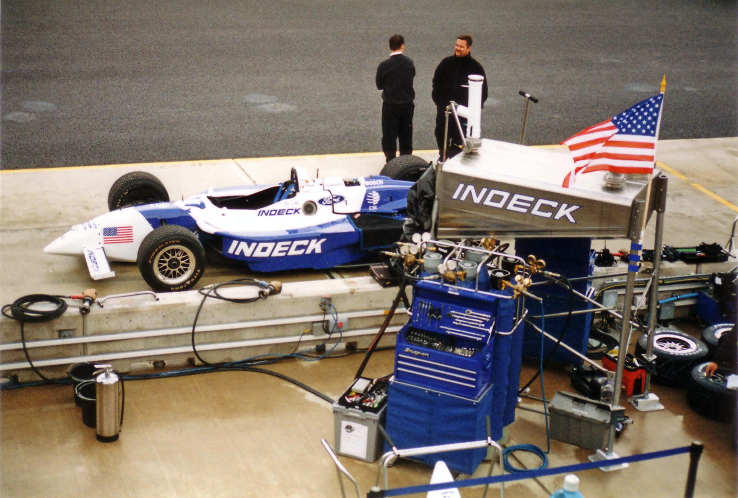 Bryan Herta'a #77 Forsythe Reynard CART/ChampCar car in the pit lane at Rockingham Motor Speedway, UK